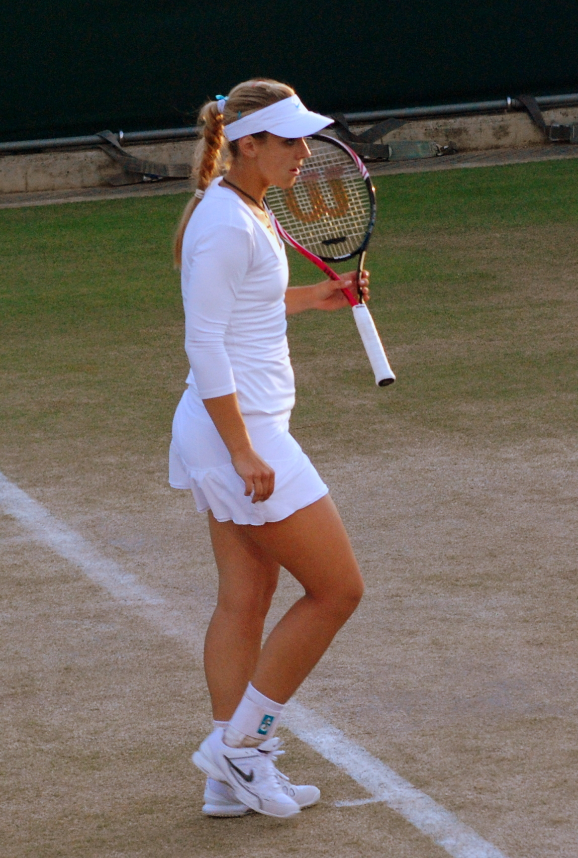 Sabine Lisicki during her doubles semi-final with Sam Stosur against Marina Erakovic & Tamarine Tanasugarn. The match had to be finished the following day, with Lisicki & Stosur winning 6-3 4-6 8-6. They then went on to play the final, in which they lost to Kveta Peschke & Katarina Srebotnik. Day 11 of Wimbledon 2011.